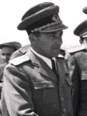 Inventarski broj:1953 020 069